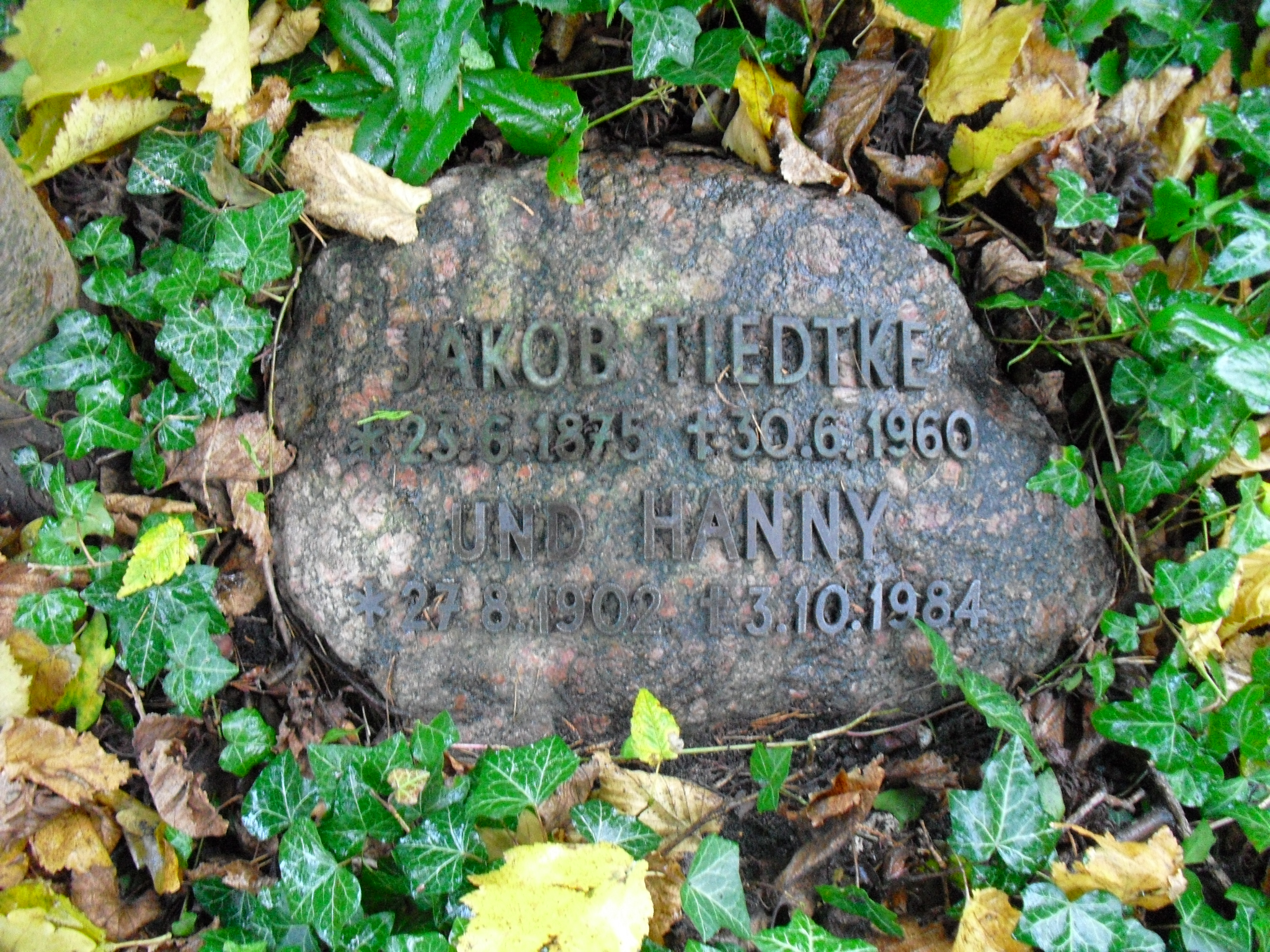 Grave of German actor Jakob Tiedtke in Friedhof Heerstraße in Berlin-Westend